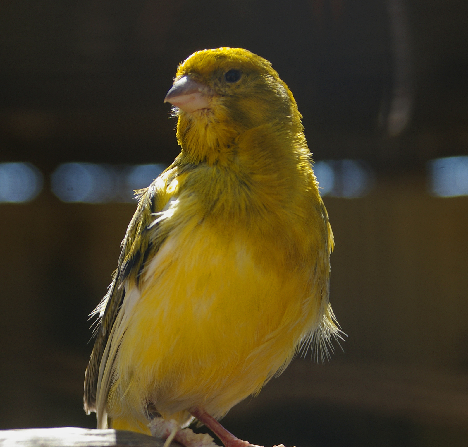 Canary (Serinus canaria) at the Wagga Wagga Botanic Gardens Zoo.